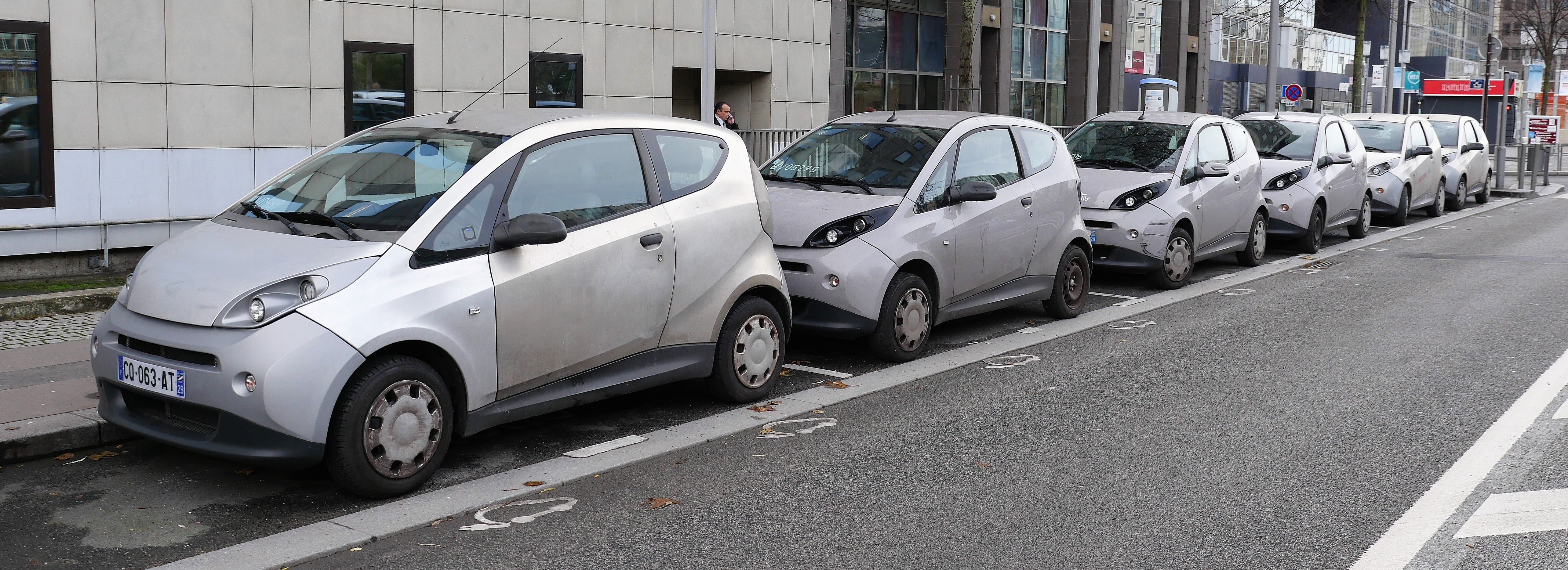 Car sharing vehicles of Autolib in Nanterre.